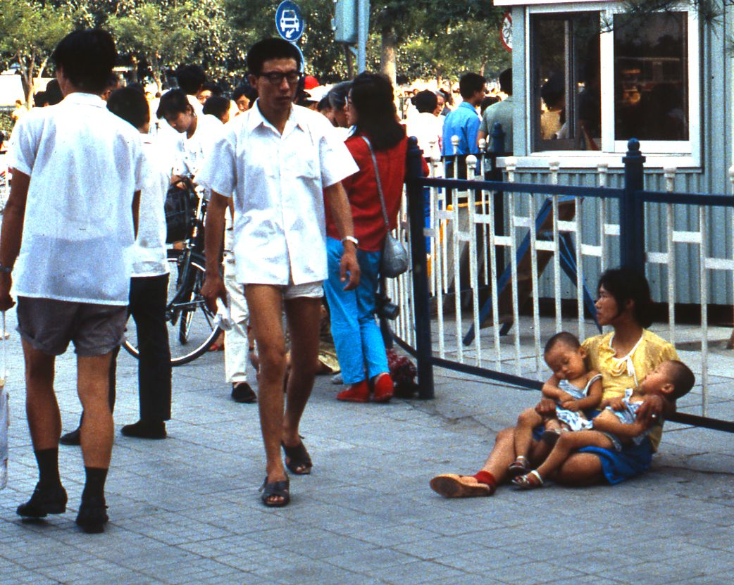 A woman sits on a pavement (sidewalk) in China, holding twins, as others walk by. One-child policy.